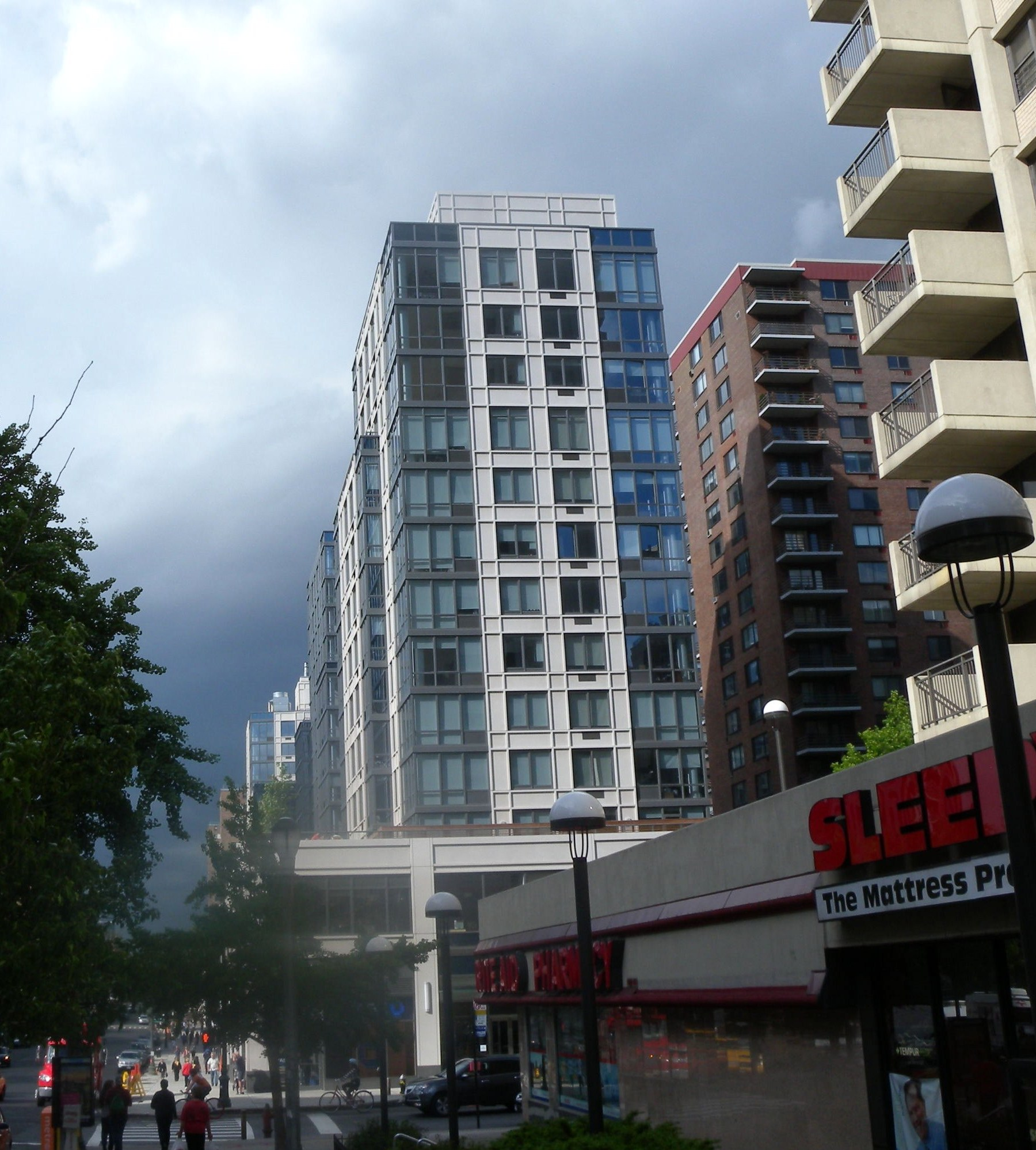 Looking northeast at 775 Columbus Avenue on a mostly cloudy afternoon.